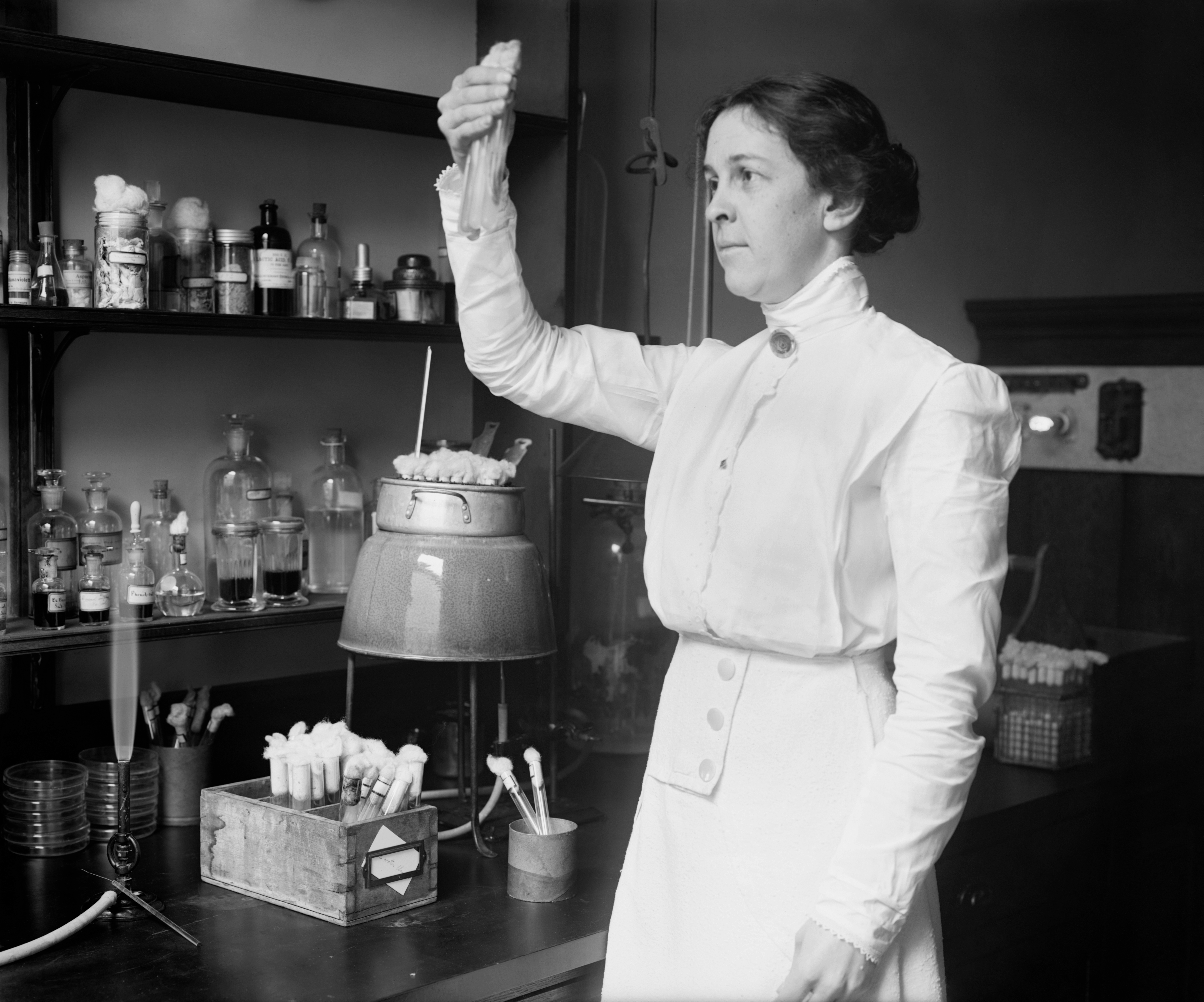 "Alice C. Evans, Facter[.] in Dairy Division, Dept. of Agrl. who studes microscopic organisms and their relation to health, flavor and keeping qualities of dairy products" (This title is a bit dated, perhaps, given one of her major achievements was that she proved brucellosis was not a bacterium that caused disease in cattle but had no effect on humans, but was a really bad thing to be drinking in your milk.)